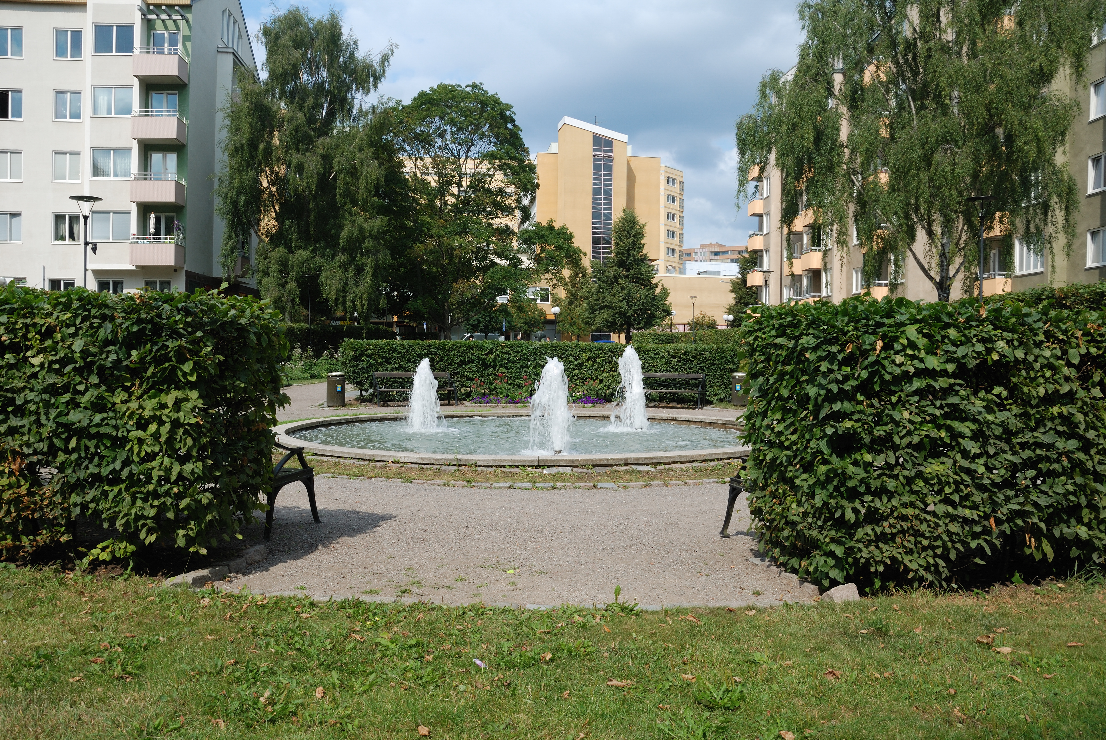 Eric Grates park July 2011